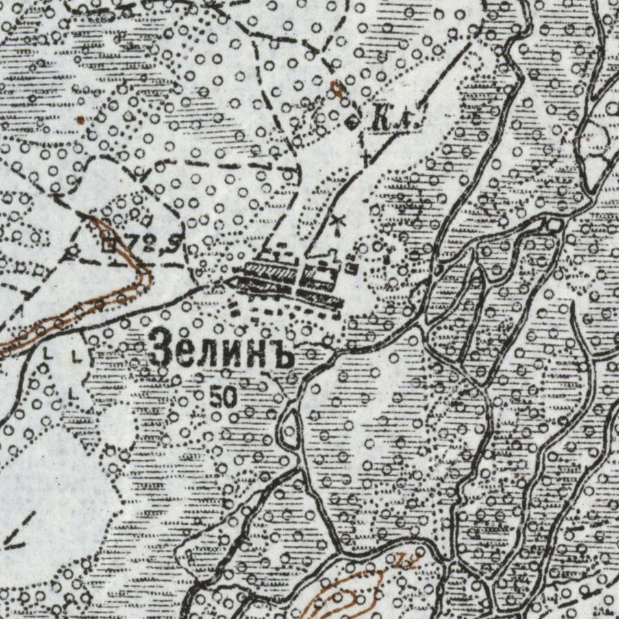 Zelen on the map "Новая Топографическая Карта Западной России", XXV 20, 1915.